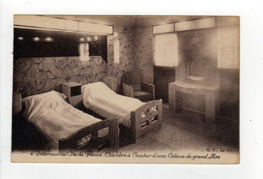 View of the bedroom in the Grand Suite on the ocean liner Île de France